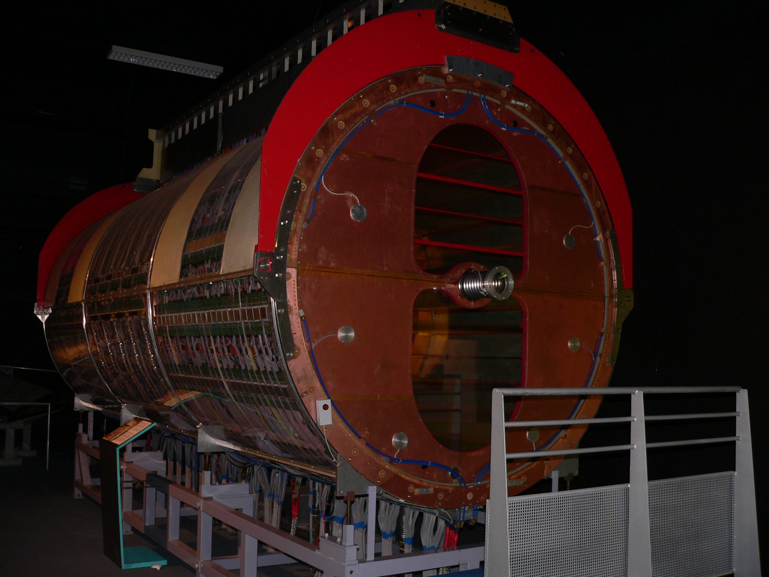 "Microcosme" exposition at the CERN